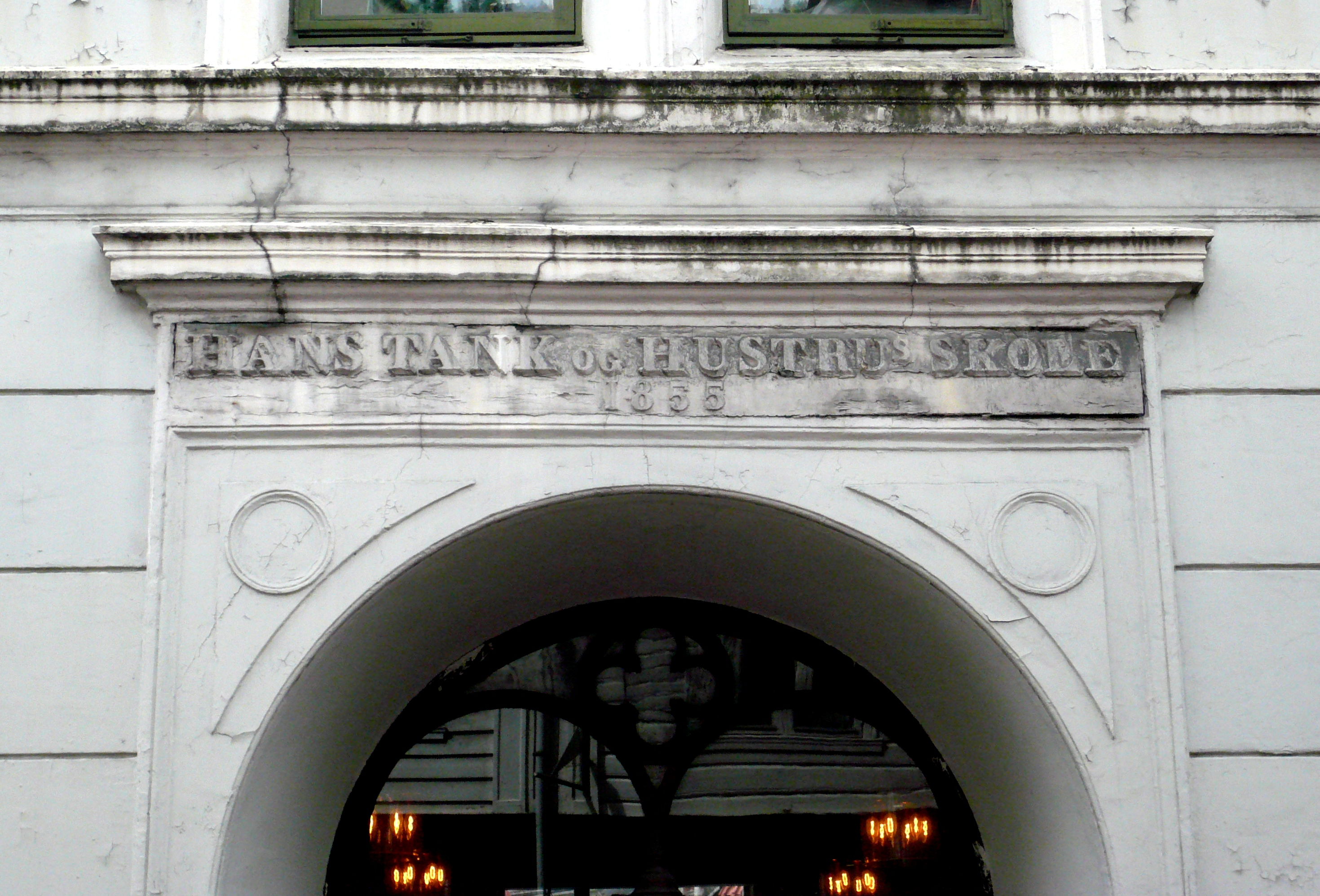 Inscription over entrance at Hans Tanks skole, Kong Oscars gate 21, Bergen, Norway. Architect: Hans Hansen Kaas.